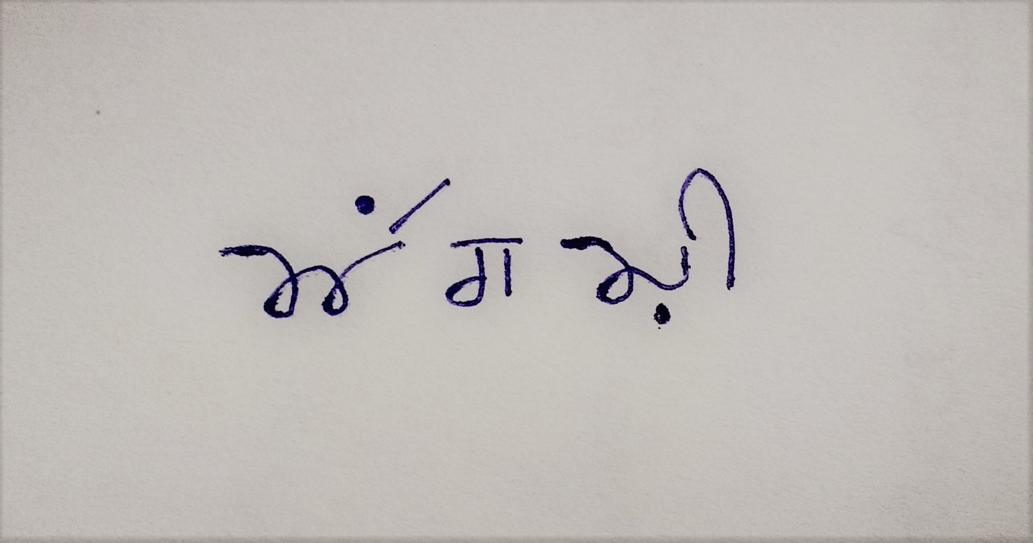 Kangri in original script